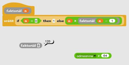 Recursion in Snap! 4.0